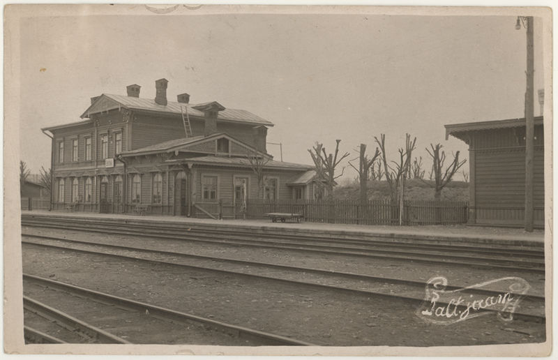 Reverse: Mihkel Tedre. Peetri street 121, 6 Paldiski. Petseri Station 12.12.1924. Today we are the anniversary of the regiment. But are I still hanging in the jungle here? - Wonderful! - you wanted Paldiski pictures - now I'll send one copy from here far from the country. Well, what are your impressions about the cat's boot from December 1? Repeatedly Stja-Petseri Armor train 2nd carriage by K.Silearu? (Text on the subject) (2026104)